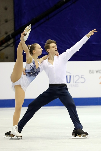 Aleksandra Boikova and Dmitrii Kozlovskii at the Junior Worlds in 2017